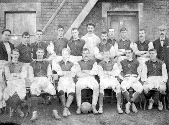 Swindon Town F.C. team. (fltr), back row: Trimmer (trainer), Richardson, Henderson, Logan, Mills, Menham, Munro, Shutt, Boulton, Smith, Dodson (secretary). Front row: Hallam, Sharples, Anthony, Little, Richardson, Morris, Kirton.